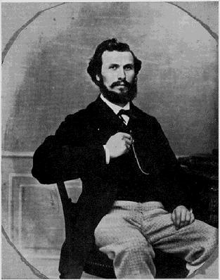 J. Homann. Pieter Cornelis Mondriaan senior. c 1870. Photo. The Hague, Gemeentemuseum Den Haag.